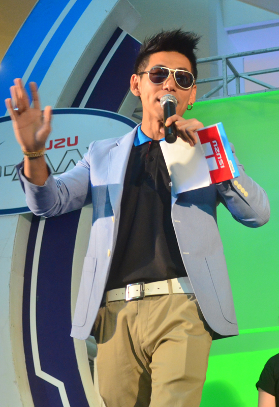 Wichian Kusolmanomai